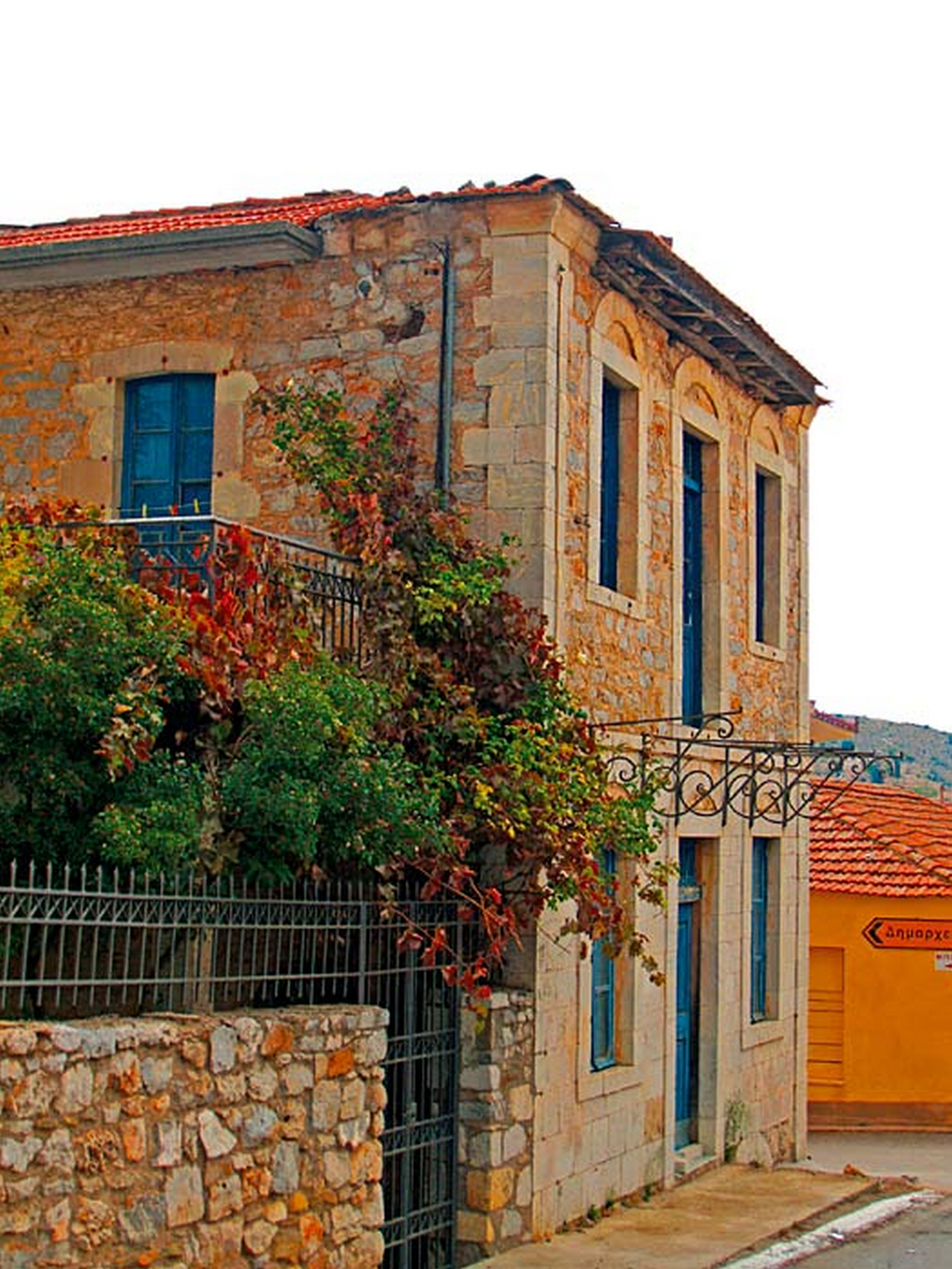 House in Vlahokerasia, Arcadia.